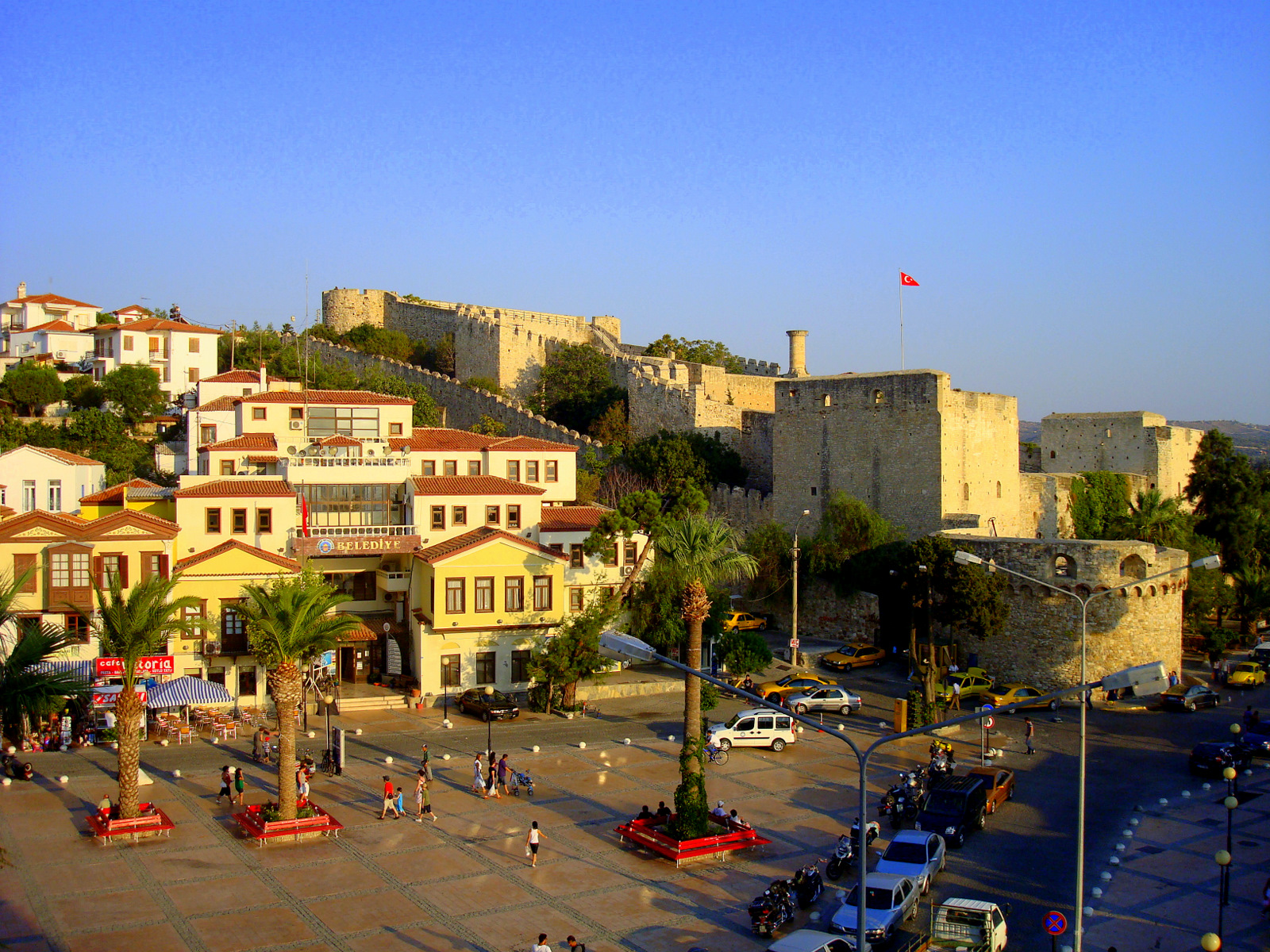 Cesme, Izmir, Turchia